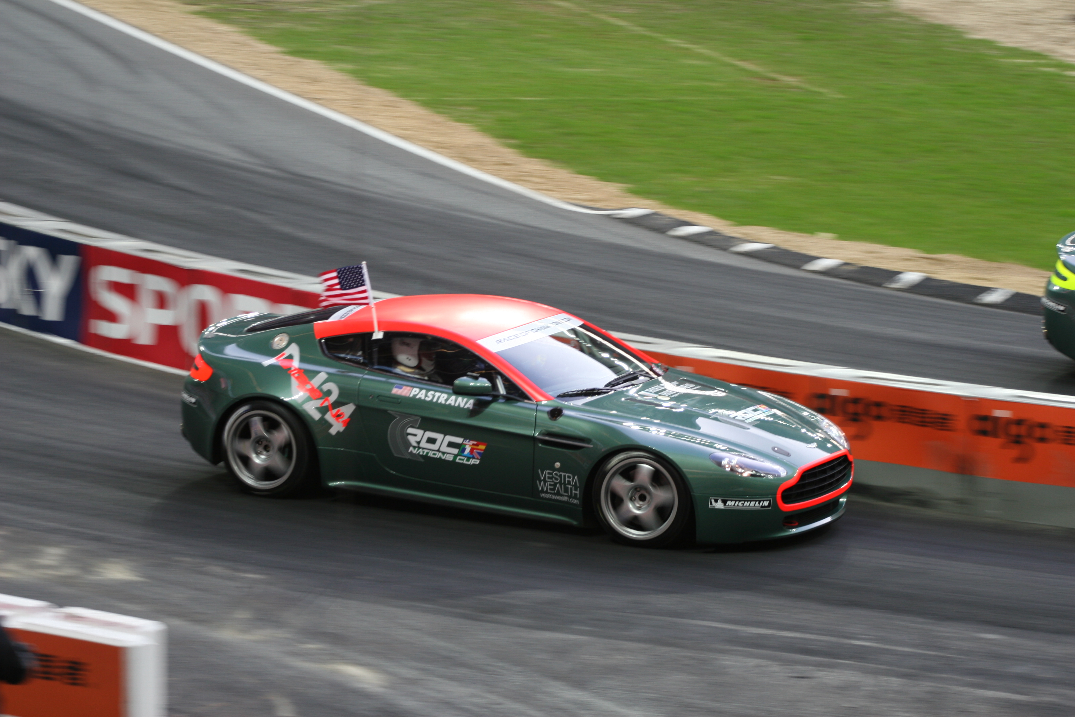 Travis Pastrana driving an Aston Martin V8 Vantage N24 at the 2007 Race of Champions at Wembley Stadium.